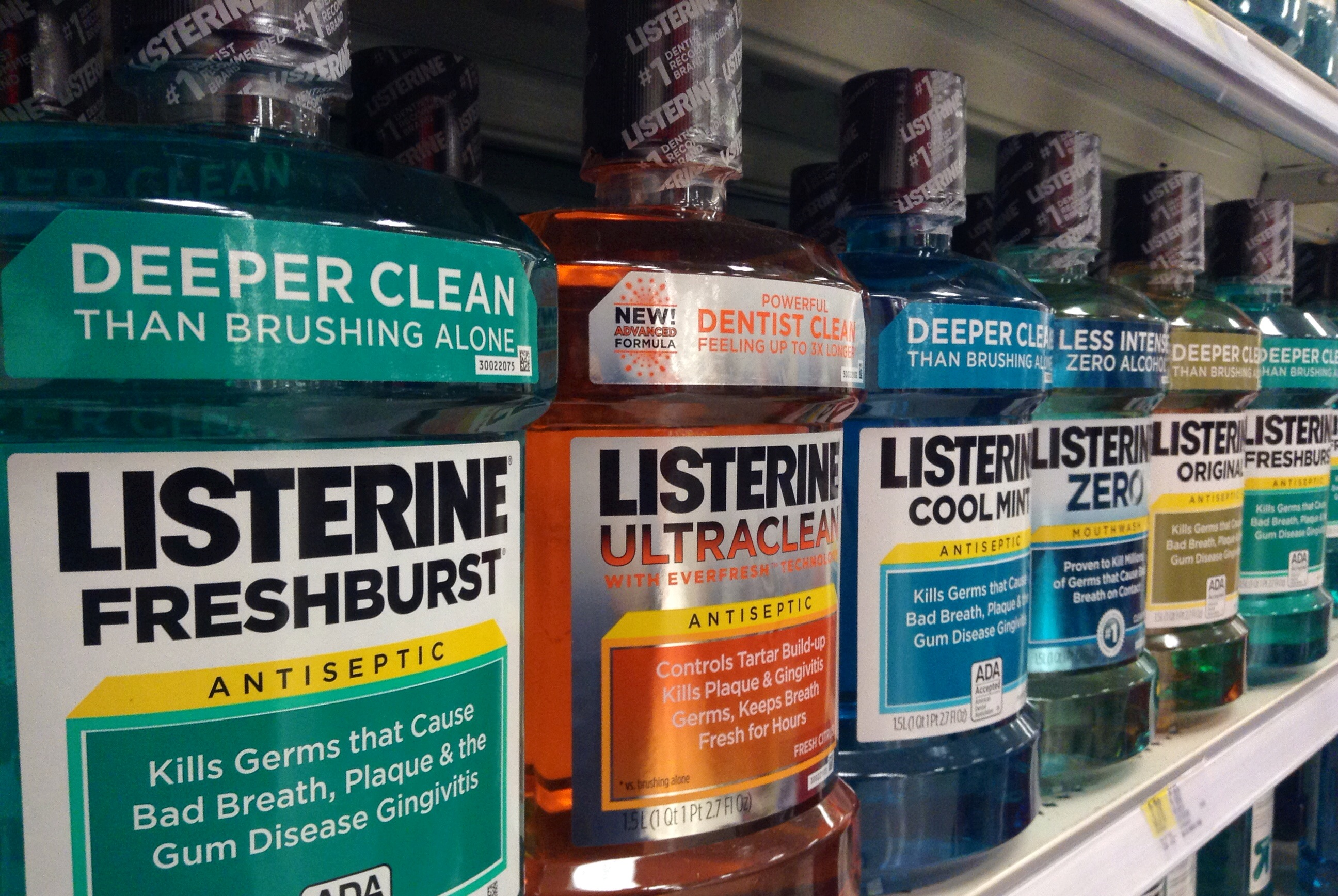 Various Listerine products (USA, 2014)